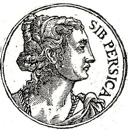 Persian Sibyl was the prophetic priestess presiding over the Apollonian Oracle. The Sibyl is sometimes referred to as the Babylonian Sibyl.